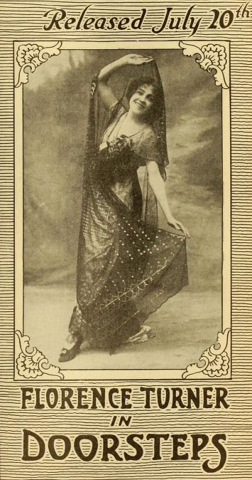 Advertisement in The Moving Picture World